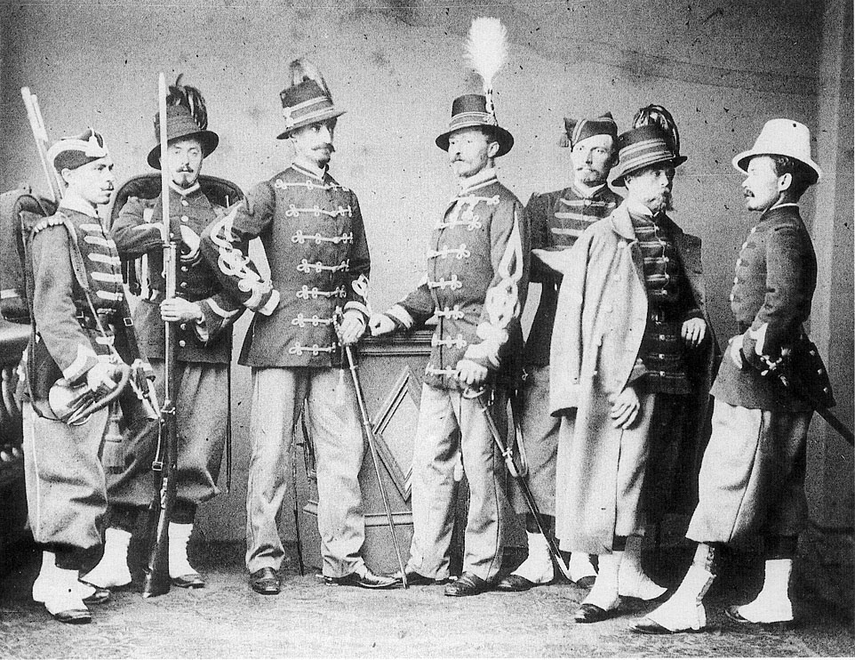 Photograph of members of the Belgian Foreign Legion